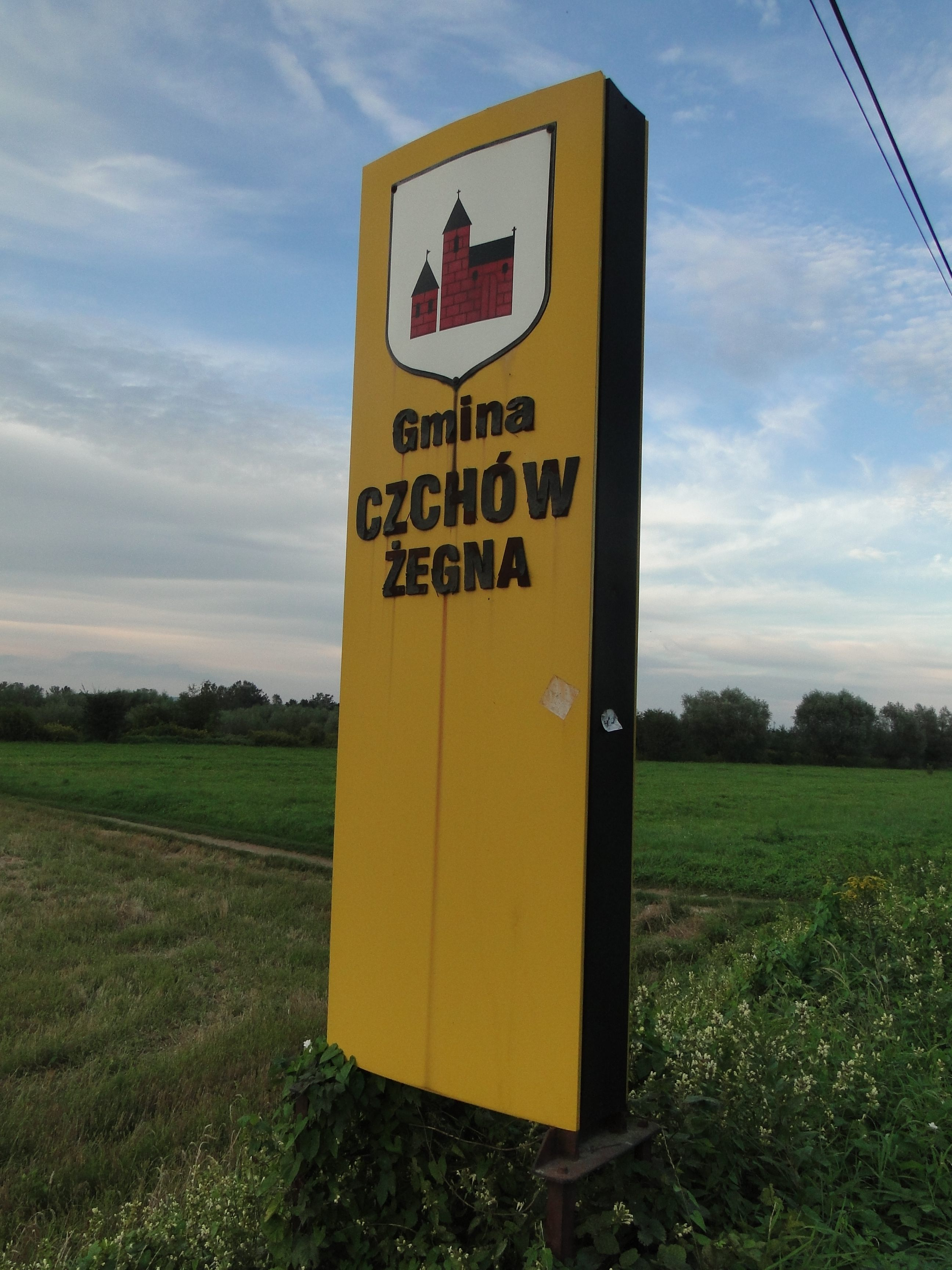 Czchow Municipality